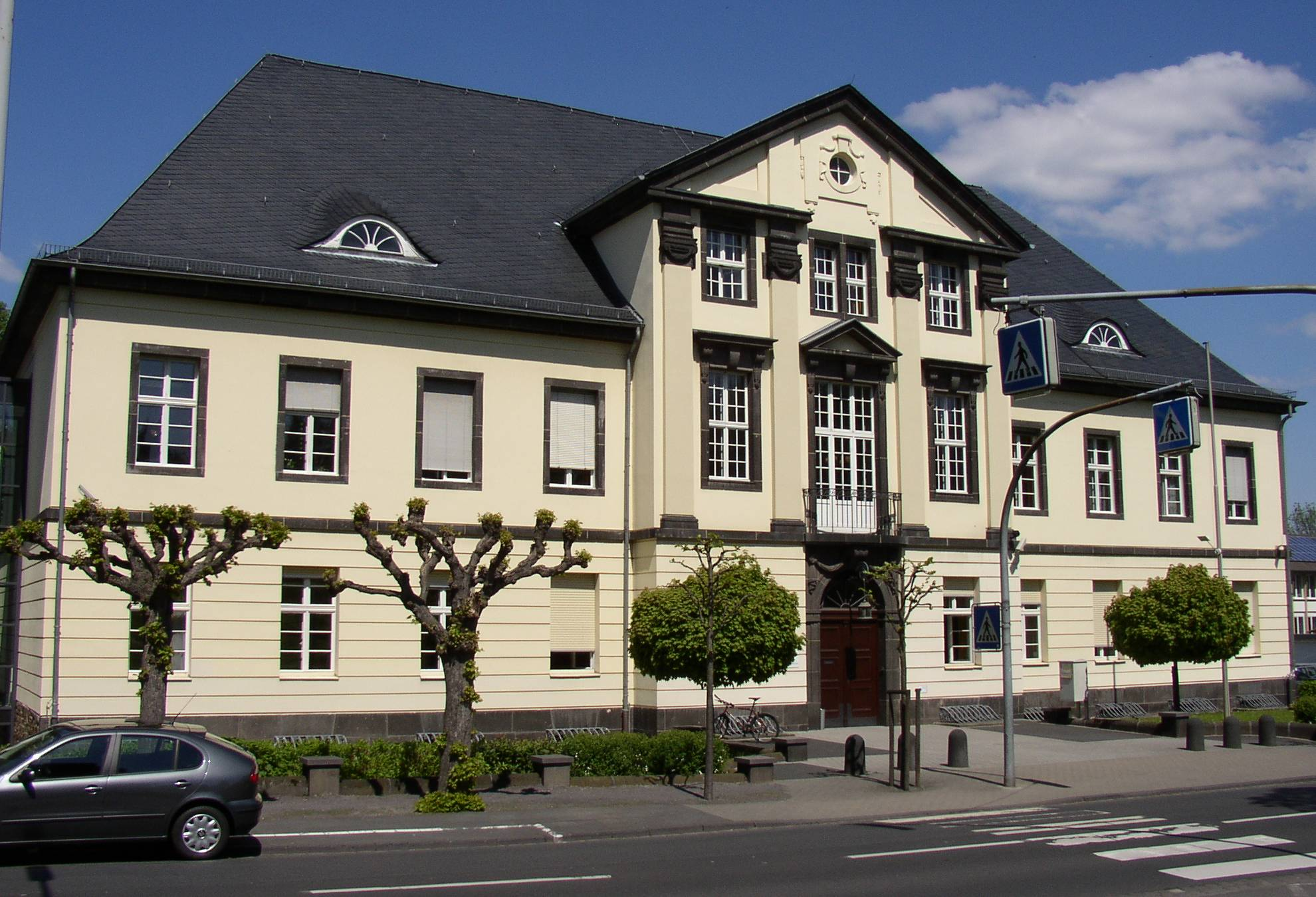 Magistrates' Court in Sinzig in Rhineland-Palatinate, Germany